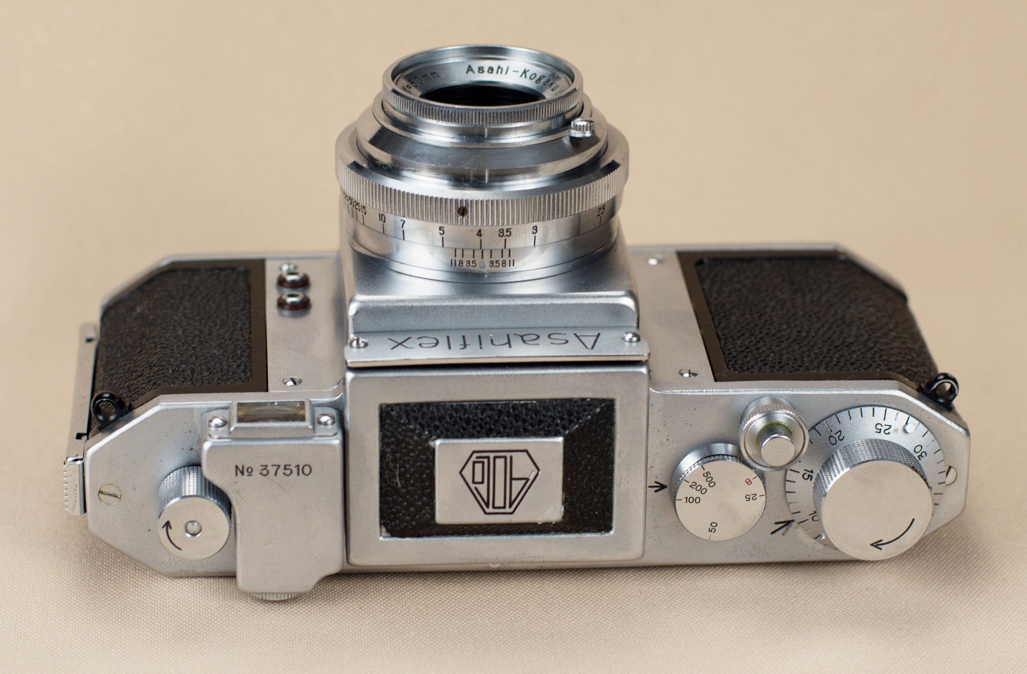 Asahiflex Ia top